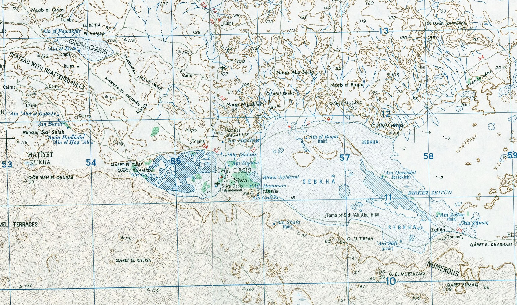 Map showing Siwa Oasis, Egypt